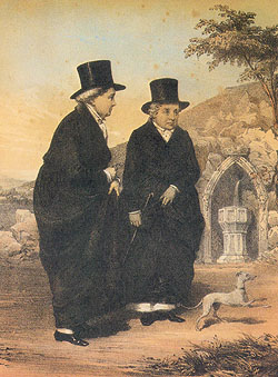 An oil picture on canvas of the Ladies of Llangollen